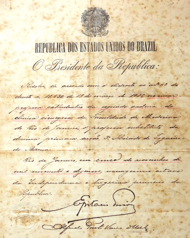 Epitácio Pessoa presidential decree.